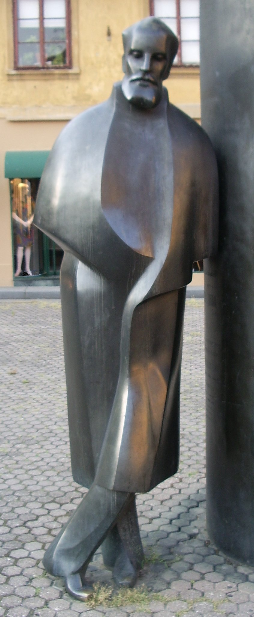 Statue of August Šenoa, work of Marija Ujević-Galetović.